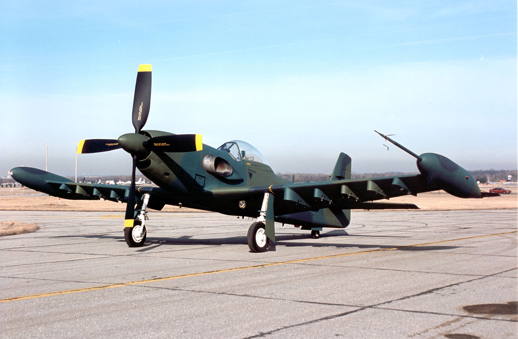 Photographed of a parked Piper PA48 Enforcer